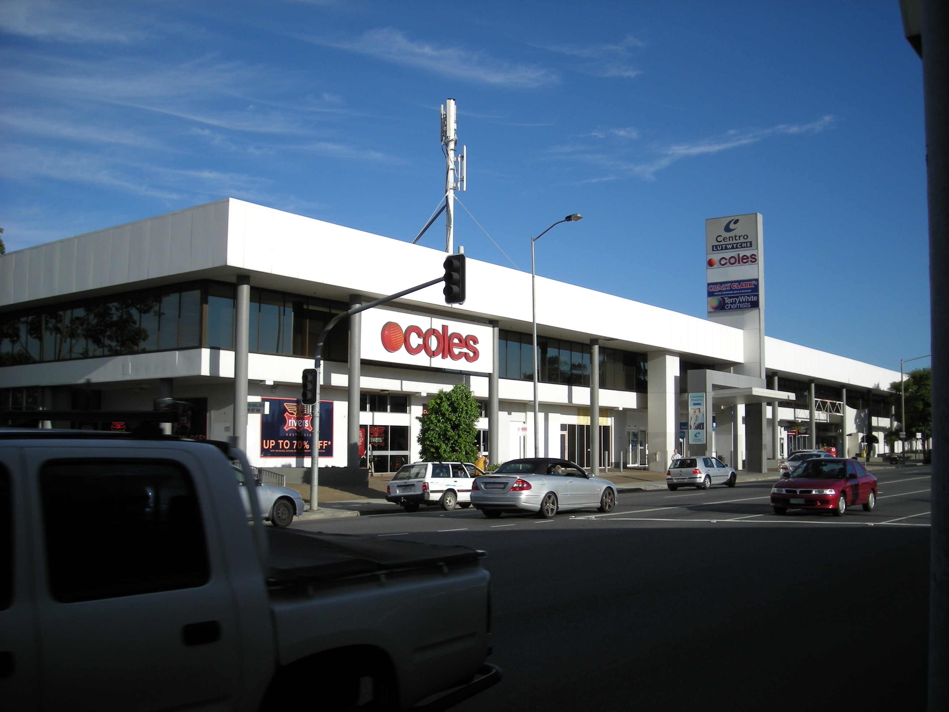 The front facade of Centro Lutwyche shopping centre. Lutwyche, Queensland, Australia.